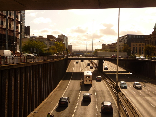 Glasgow: the M8 emerges from under Charing Cross Looking down from the pavement at Charing Cross, as the M8 motorway reappears. Behind us, it remains underground until passing below Woodlands Road.